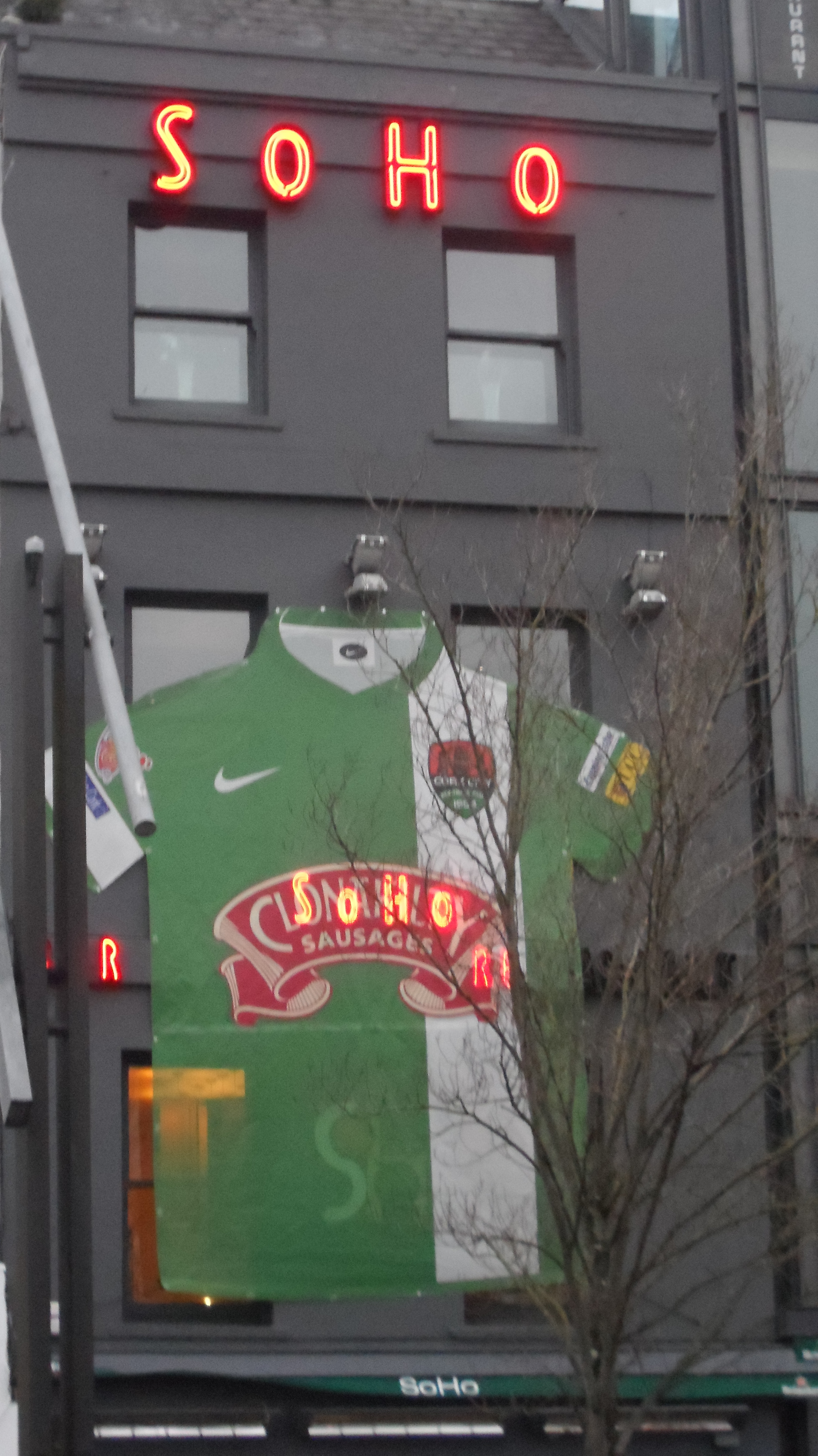 Cork City decoration